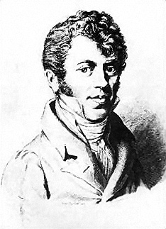 Description: Sigismund von Neukomm, composer (1778 - 1858)